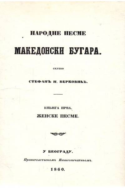 Narodne Pesme Makedonski Bugara